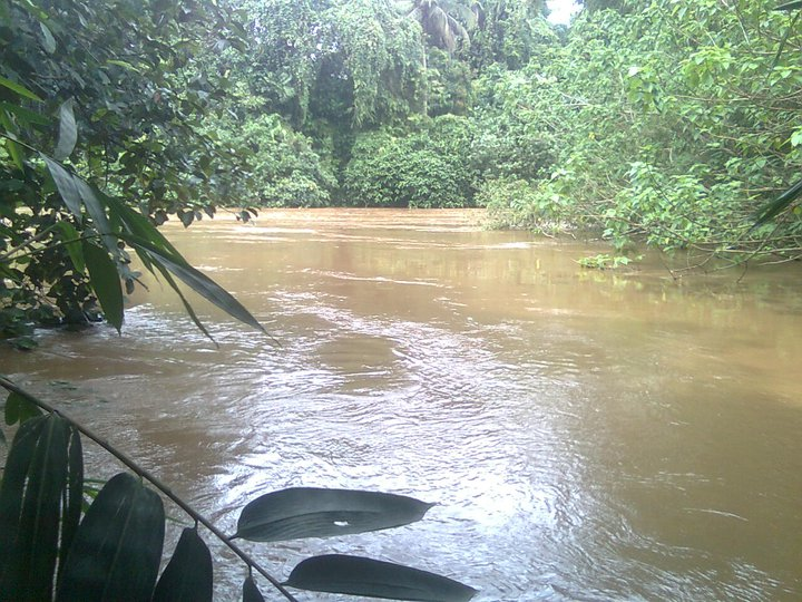 Achan Kovil River - Vallicode